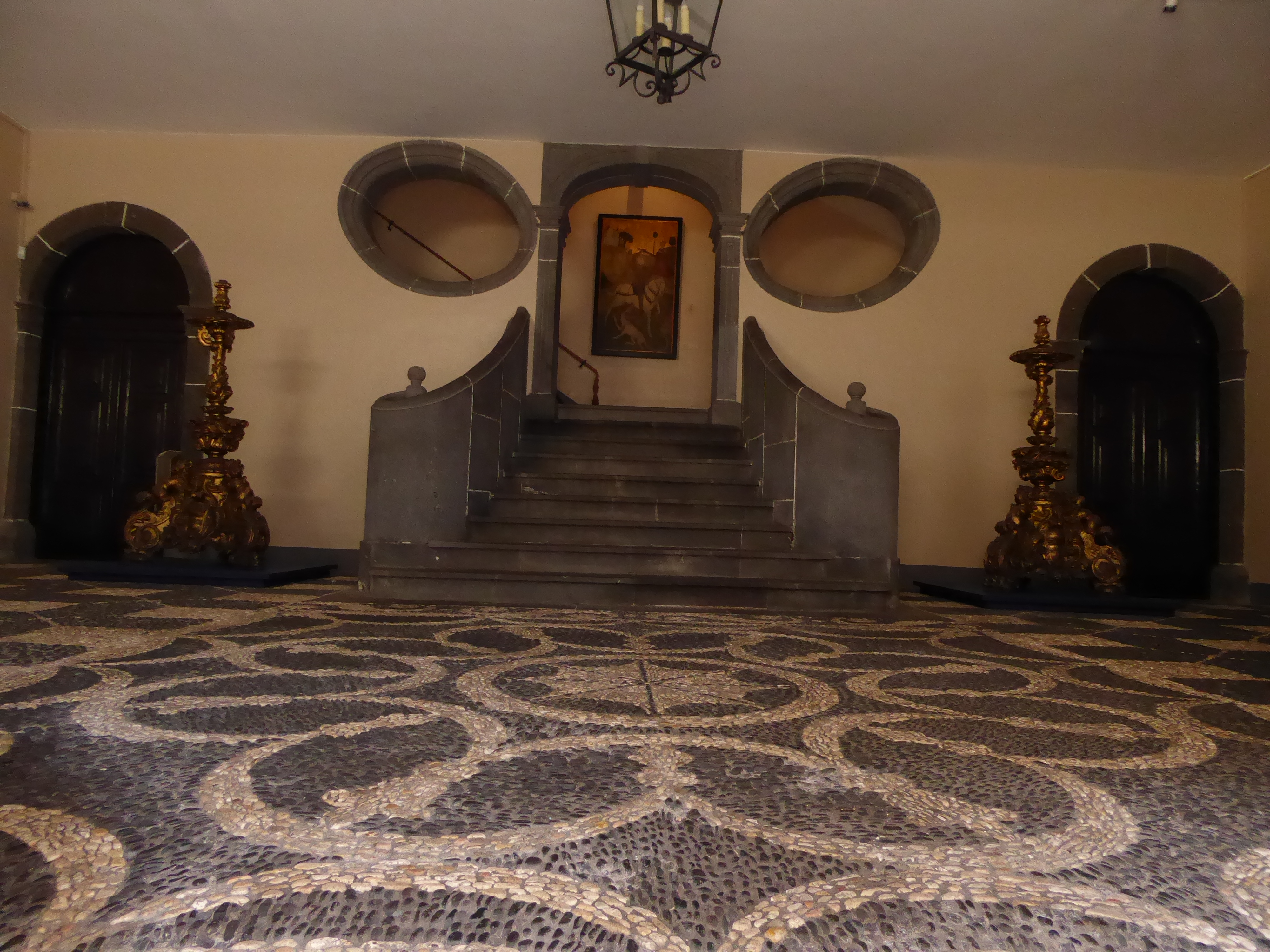 Museu de Arte Sacra do Funchal (foyer)